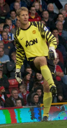 Edwin van der Sar playing for Manchester United